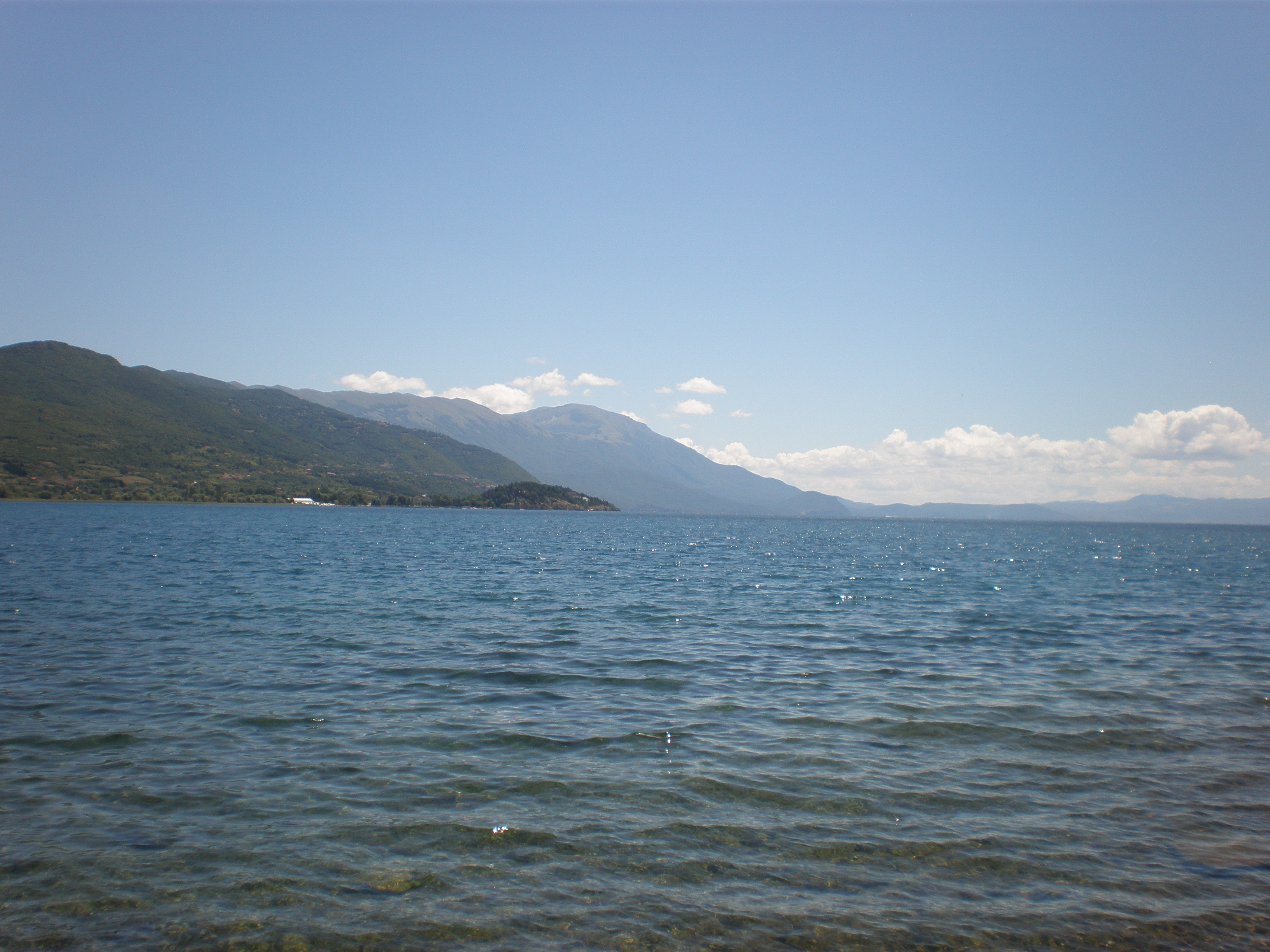 View of the mountain of Galichica and the Ohrid Lake